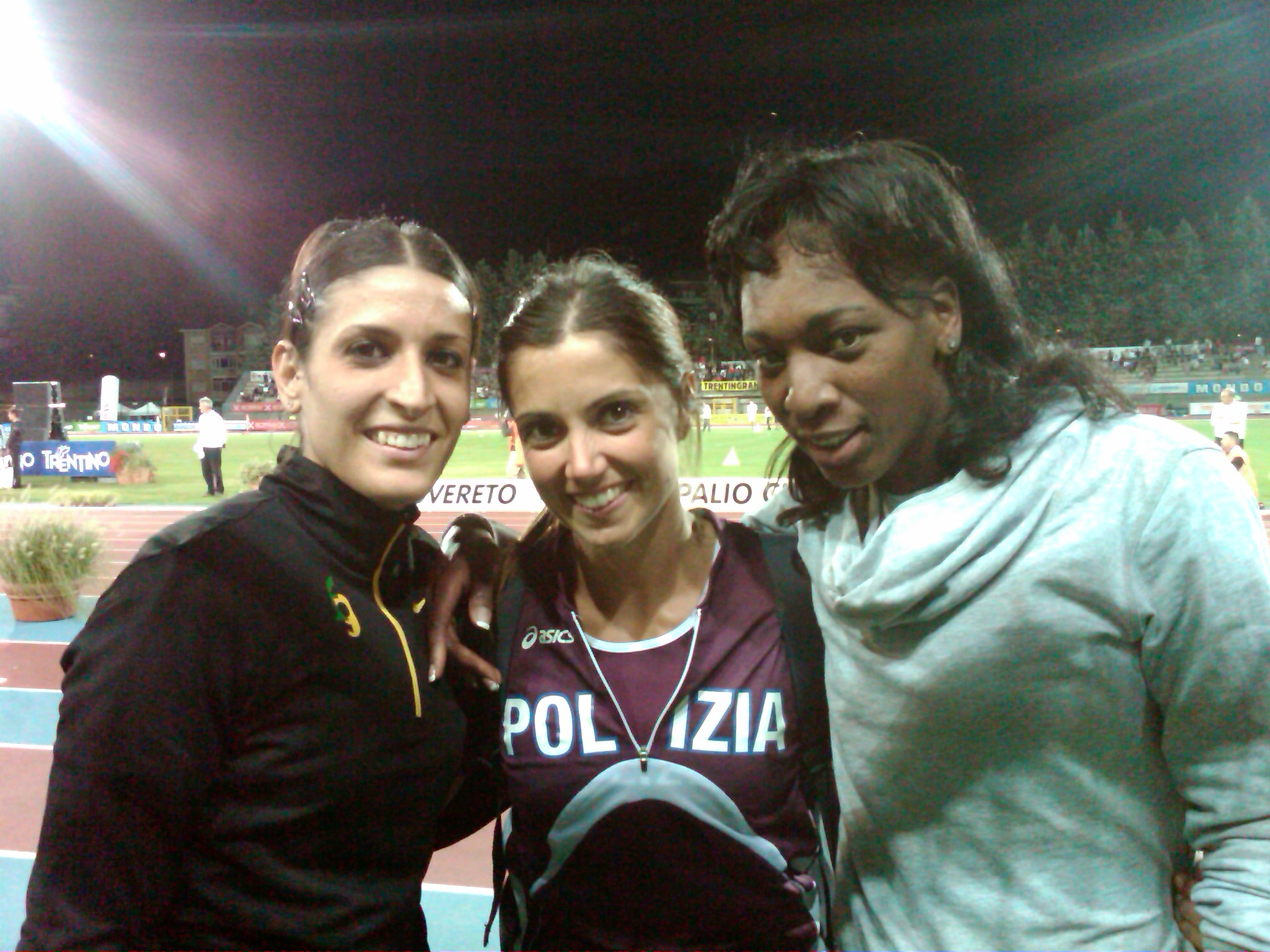 Silvia cucchi with Simona La Mantia and Magdelin Martinez